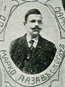 Portrait of IMARO member Marko Lazarov from Kosach